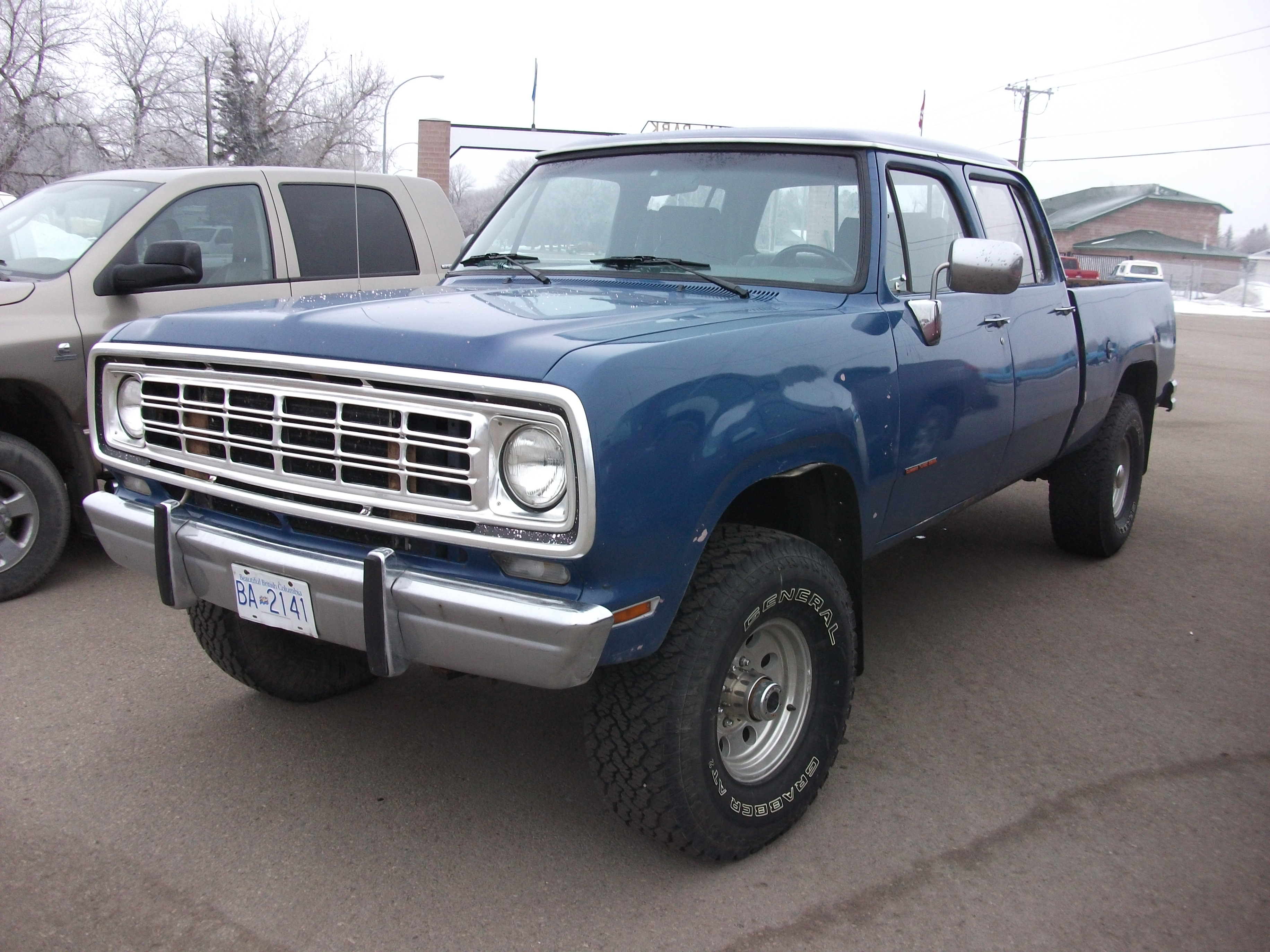 Not too many of Dodge trucks with the crew cab around.